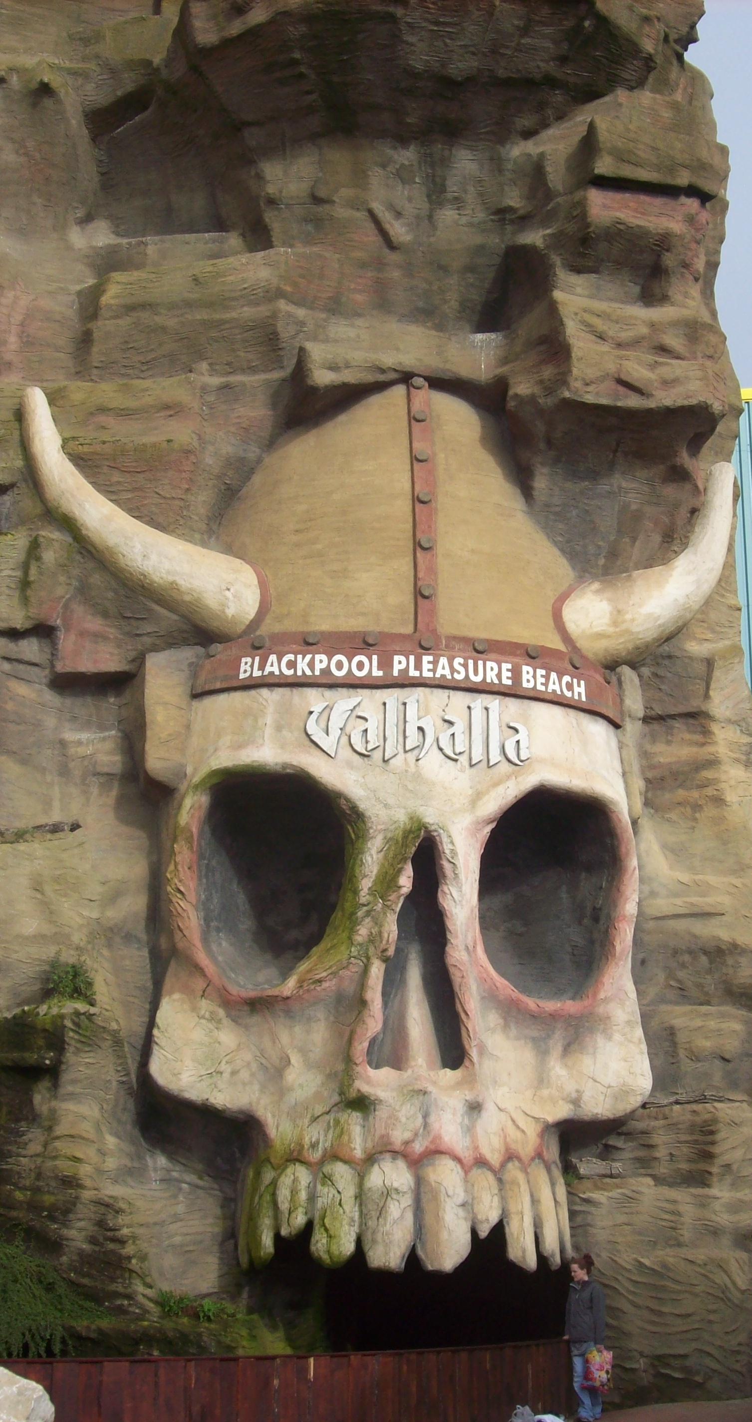 The Valhalla ride at the Blackpool Pleasure Beach.